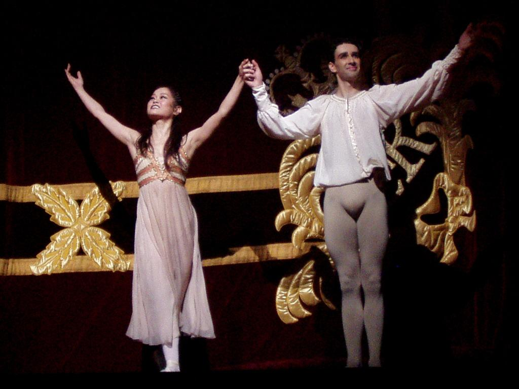 Scillystuff